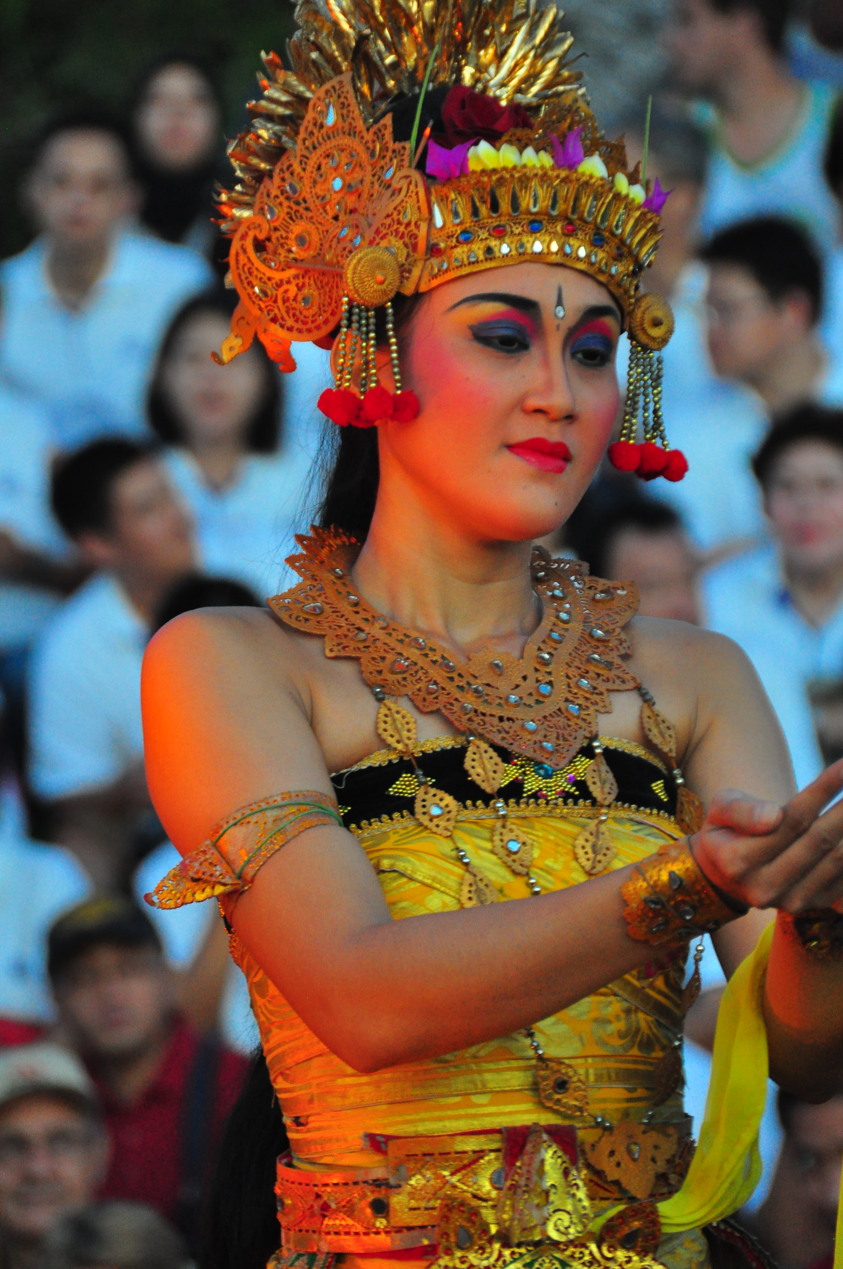 Arts and dance in Hindu community of Bali